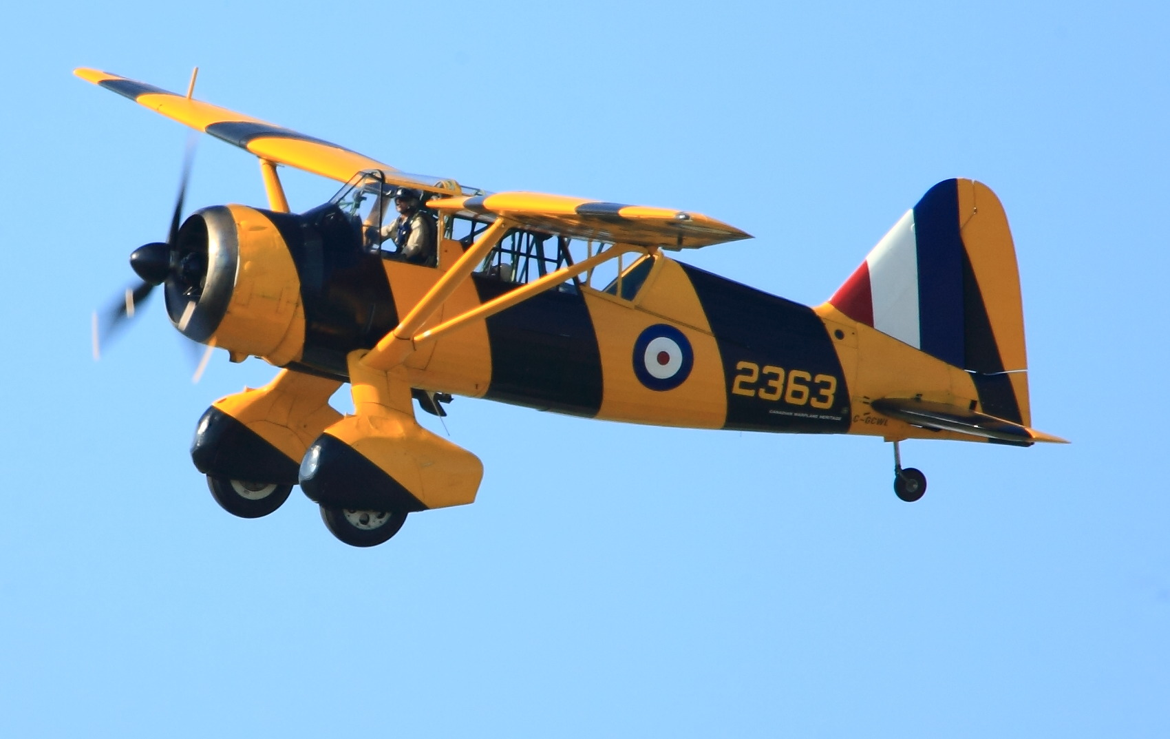 The Canadian Warplane Heritage Museum's Westland Lysander Mark III flying at the 2010 Brantford Airshow in Brantford, Ontario, Canada.